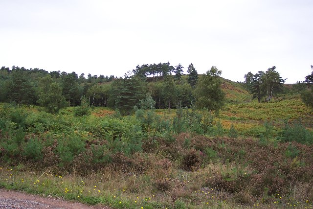 Ricochet Hill. Looking NNW from the boundary of the Ash Ranges danger area towards Ricochet Hill. Far more of the features in the danger area have names than those in comparable areas outside. The growth of pine saplings is obvious in the foreground. Over 500 hectares of the training area the Surrey Heathland Project, in conjunction with the MOD, has cleared the pine and birch scrub to maintain the valuable heathland habitat as part of the five year "Surrey's Last Wilderness" programme. Nearly 4/5ths of Surrey's heathland area has been lost since the late 18th century. In part, this loss has been to agriculture, forestry and development, but lack of management is now the overwhelming reason for heathland loss. Surrey heathland is outstandingly important for birds. Although the number of characteristic heathland species is small, heathland in Surrey supports internationally important numbers of three bird species listed on Annex 1 of the EU Birds Directive. These are the nightjar Caprimulgus europaeus, woodlark Lululla arborea (both UK Priority List) and Dartford warbler Sylvia undata ('Amber List').